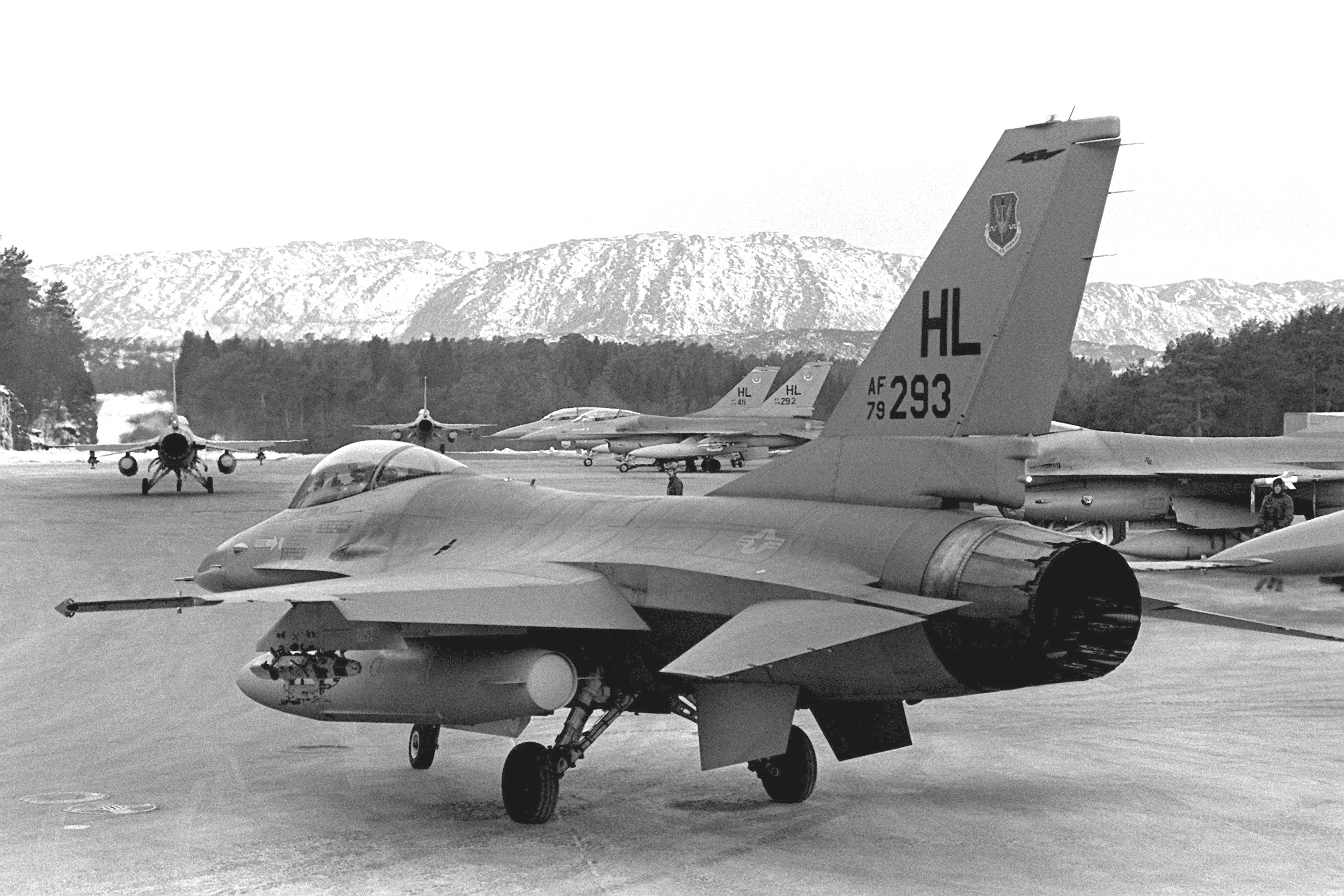 A left side view of an F-16A Fighting Falcon aircraft from the 4th Tactical Fighter Squadron assigned to the 388th Tactical Fighter Wing, taxiing into position for take-off. This assignment to Norway marks the first overseas deployment of the F-16A aircraft.